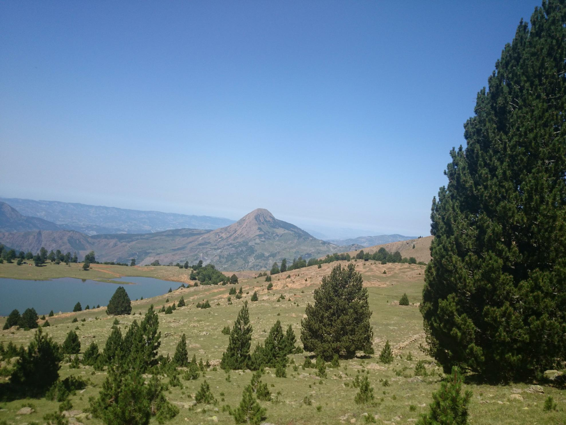 Liqeni i Zi of Lenie (Shënepremte) with Maja e Komjanit (1791m) in the background – Gramsh district, Albania